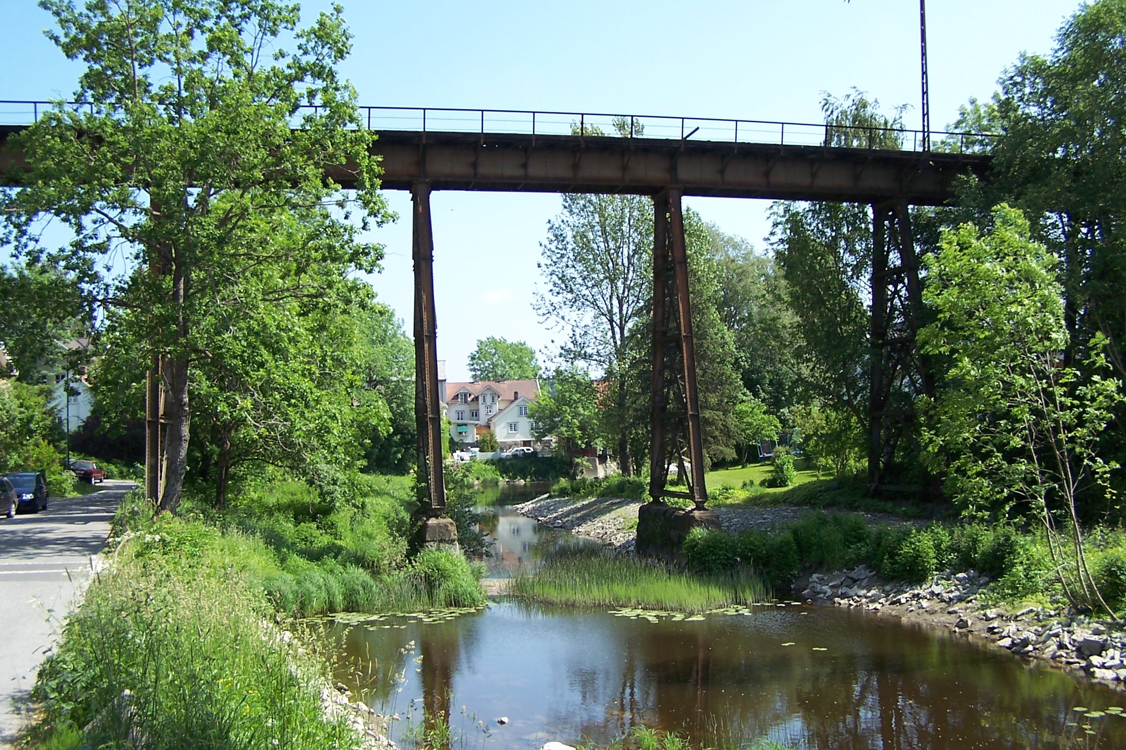 Hølen, railroad bridge from 1879, disused since the railroad was moved.